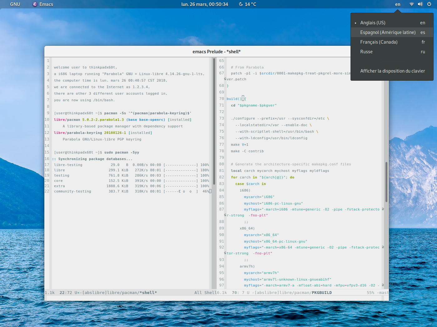 Parabola GNU/Linux-libre screenshot, with the GNOME Shell desktop and the GNU Emacs text editor.